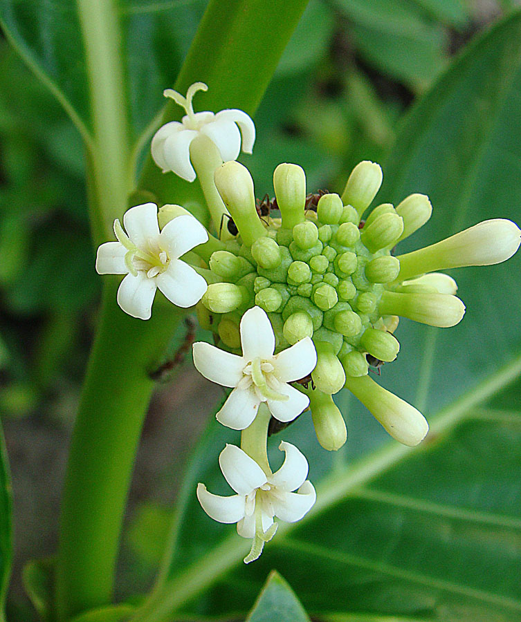 On Isla Zapatilla in northwestern Panama, flowers begin to assemble a composite fruit, known locally as Yelma de Huevo. In context at